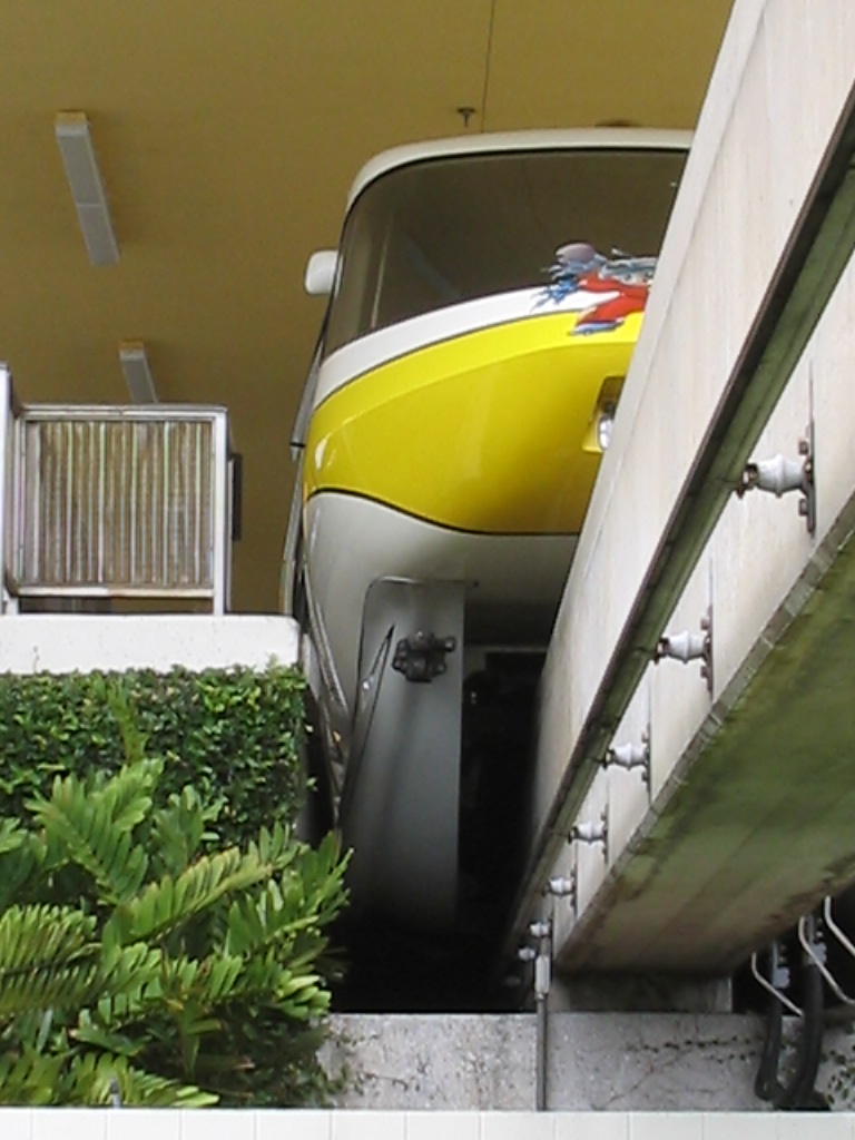 Monorail Disney World, Orlando, May 2005